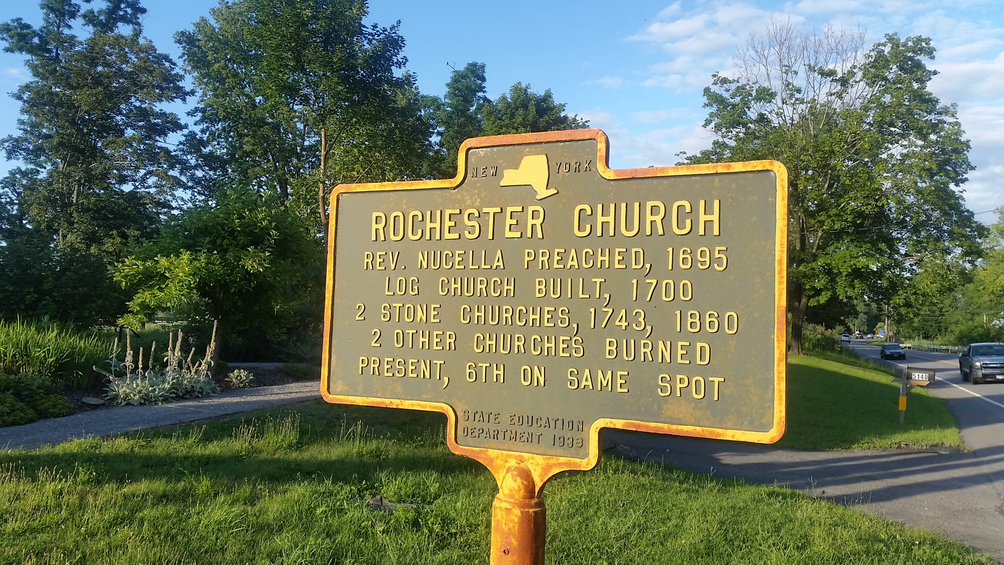 NY State historical marker for the Rochester Church originally used by Dutch Protestants (close up view of marker)